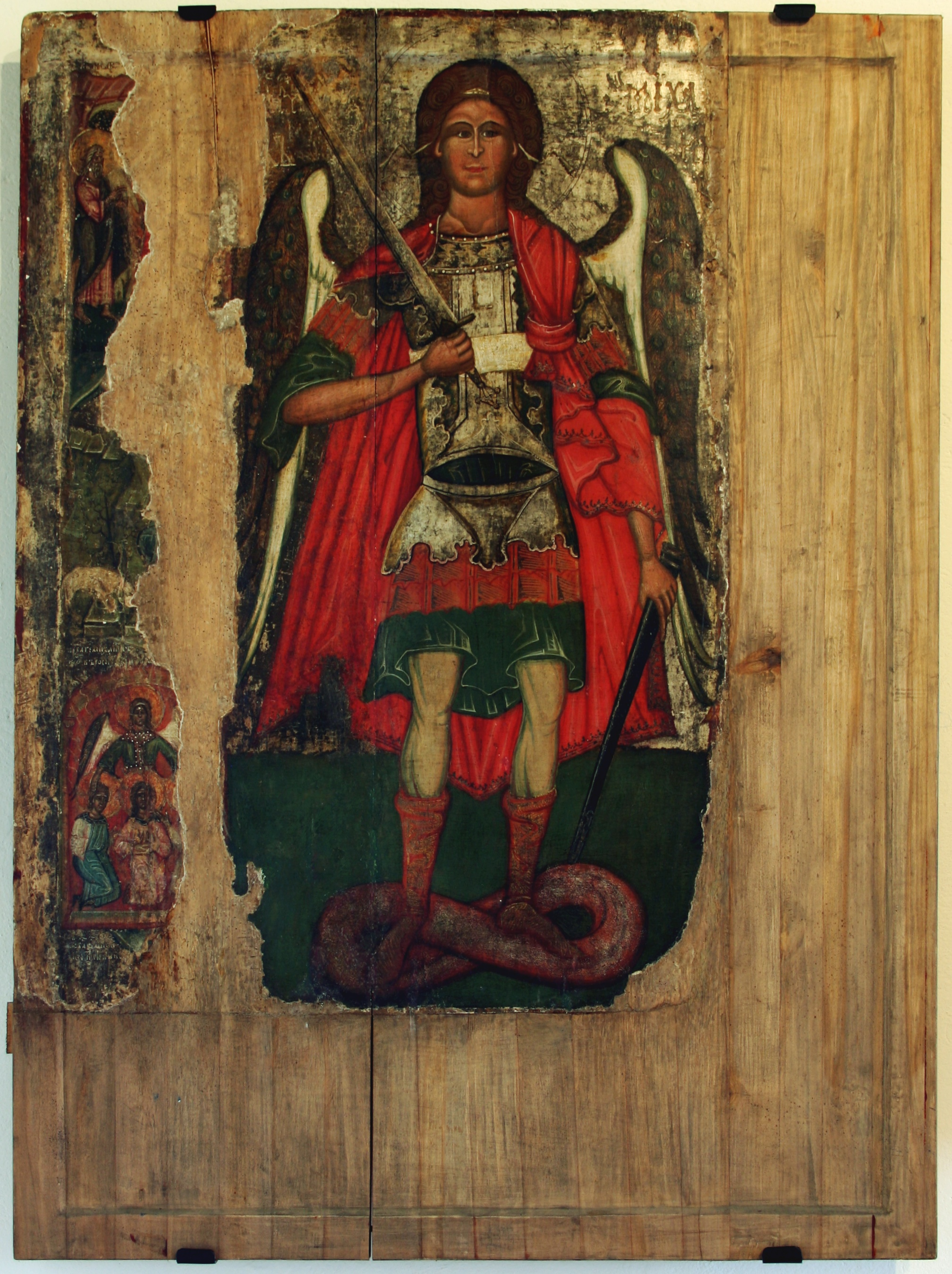 Michael (archangel) - an icon from Chrewt, Historic Museum in Sanok, Poland